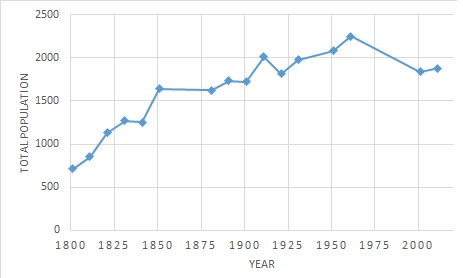 Total population of Sundridge with Ide Hill Civil Parish, Kent as reported by the Census of Population from 1801-2011